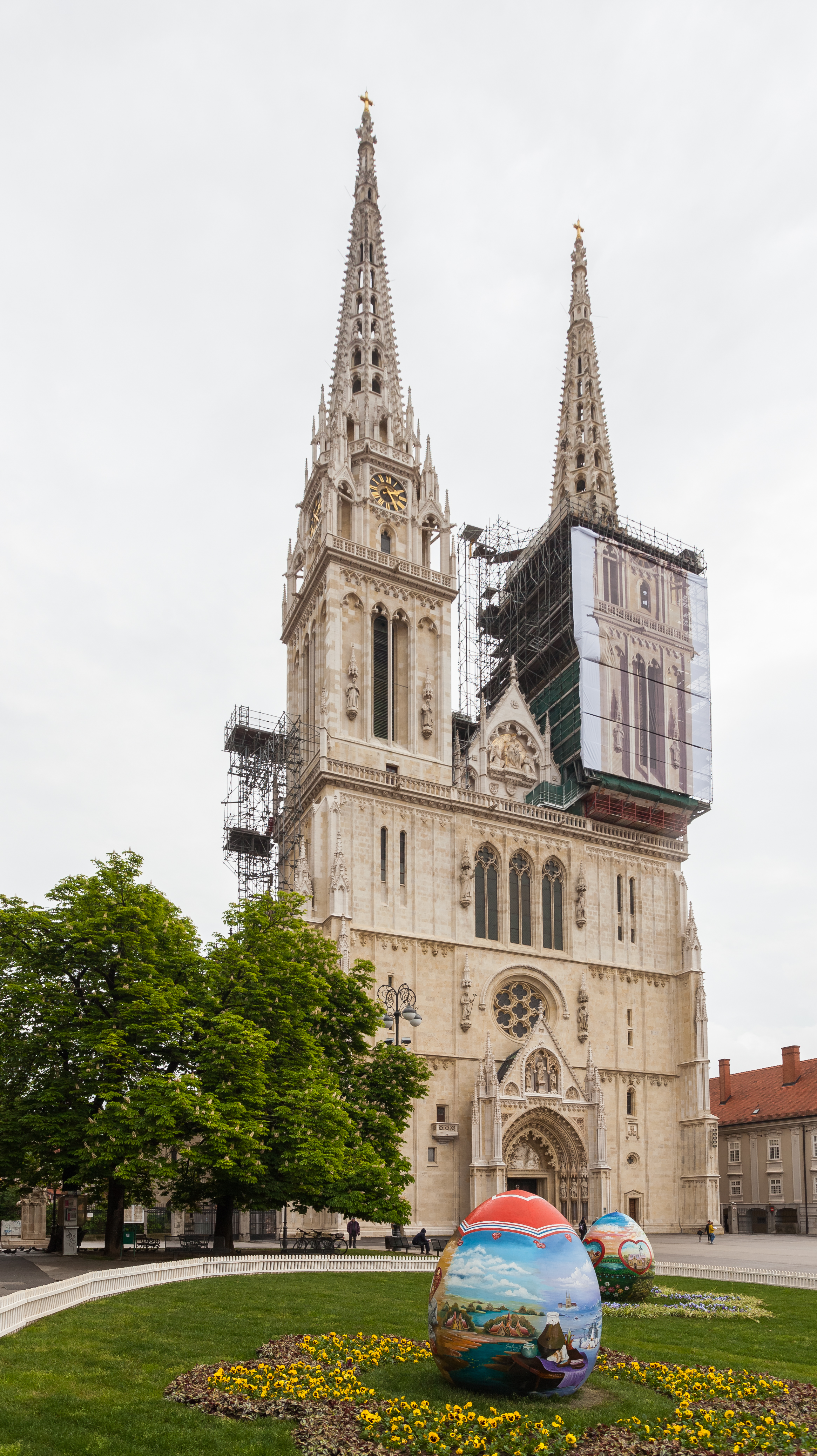 Zagreb Cathedral, Croatia